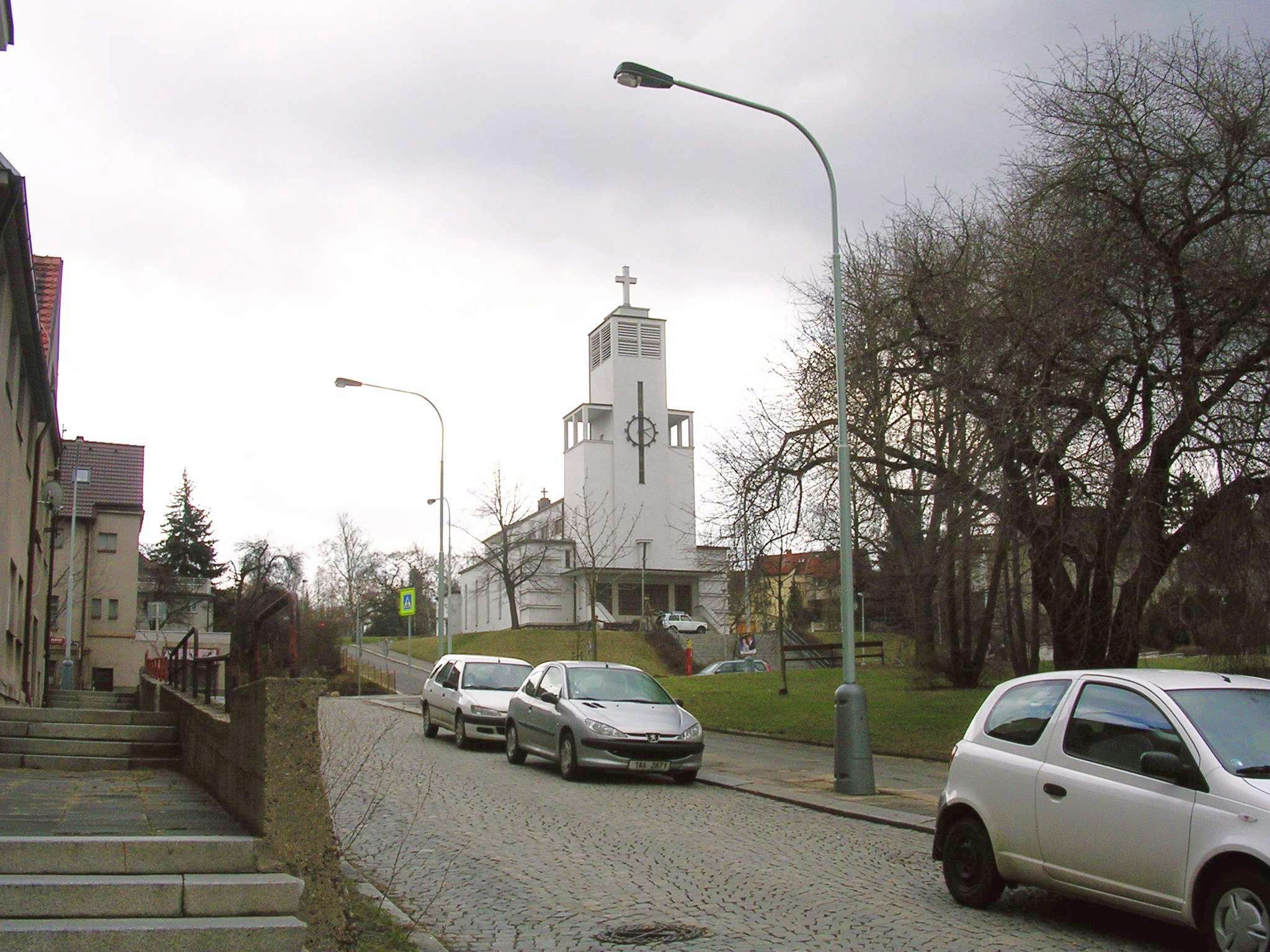 Záběhlice-Spořilov, Prague, the Czech Republic.